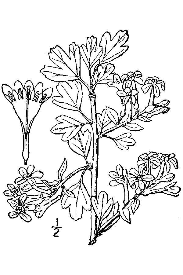 Ribes aureum Pursh var. villosum DC. - golden currant